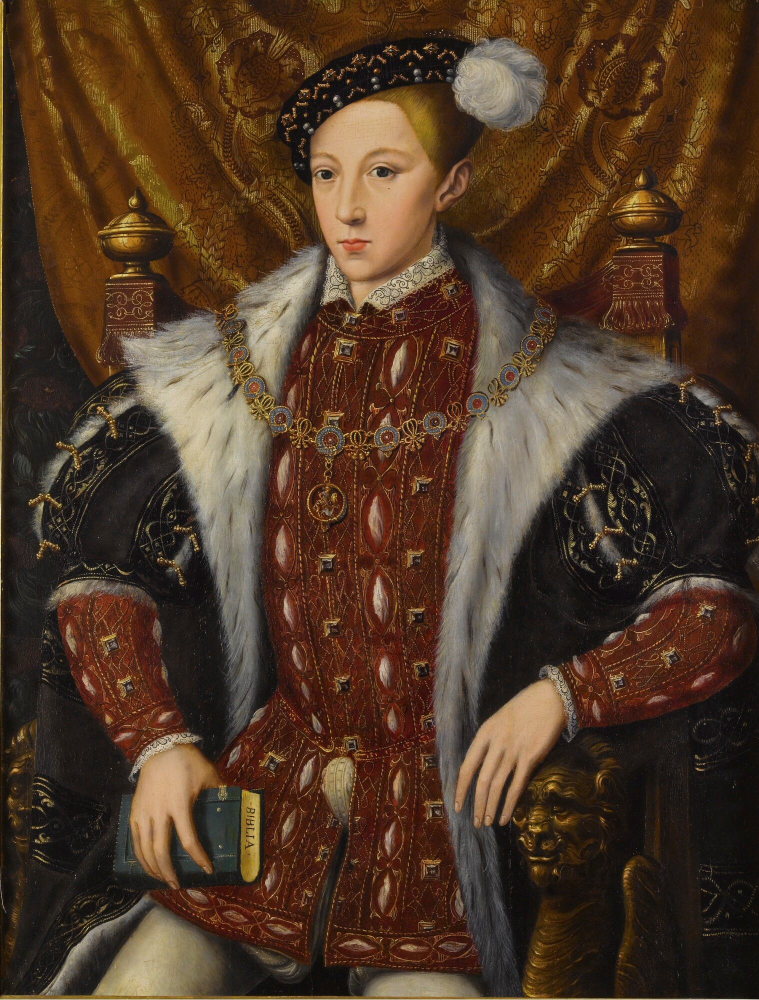 Portrait of Edward VI of England, seated, wearing a gown lined in ermine (or lynx?!) over a crimson doublet with the collar of the Order of the Garter and holding a Bible.